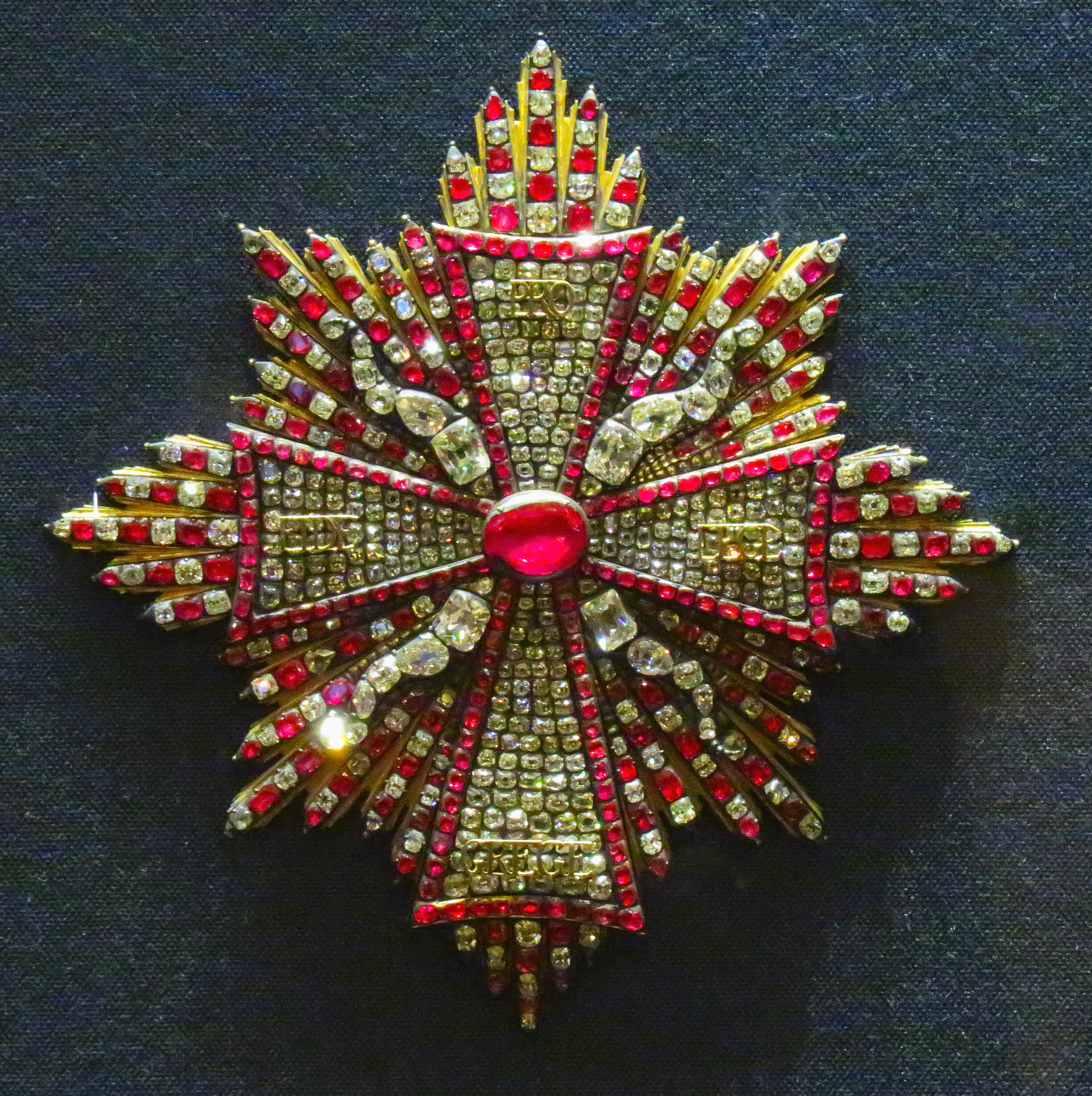 Palace on the Water in Łazienki Park, Warsaw. The Splendour of Orders - exhibition on the 100st anniversary of regaining independence. Star of the Order of White Eagle from the Royal Ruby Suit. Owner: Staatliche Kunstsammlungen Dresden